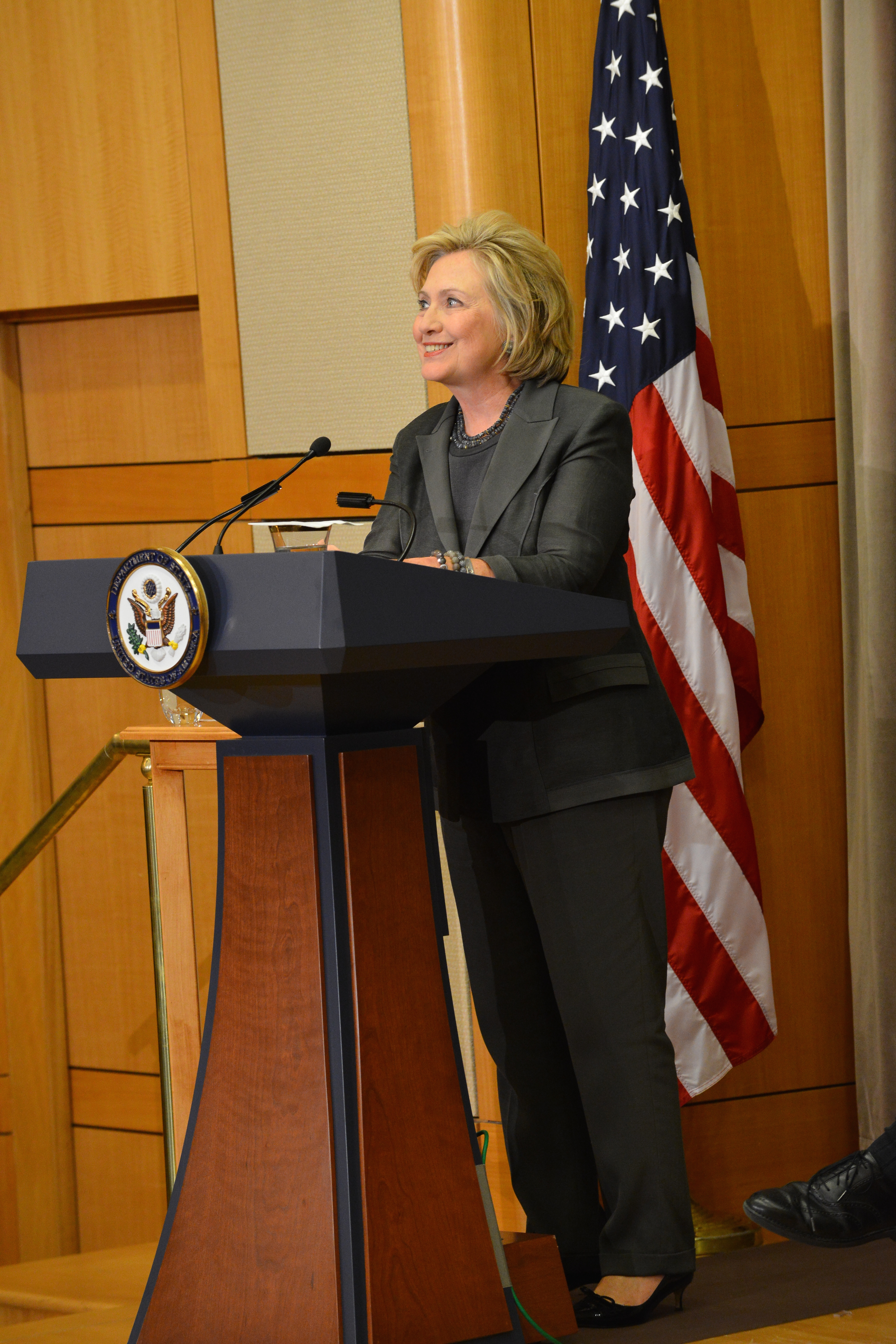 Former Secretary of State Hillary Rodham Clinton delivers remarks with Secretary of State John Kerry and former Secretaries of State Henry A. Kissinger, James A. Baker, III, Madeleine K. Albright, and Colin L. Powell at the Groundbreaking Ceremony of the U.S. Diplomacy Center at the U.S. Department of State in Washington, DC on September 3, 2014. [State Department photo/ Public Domain]